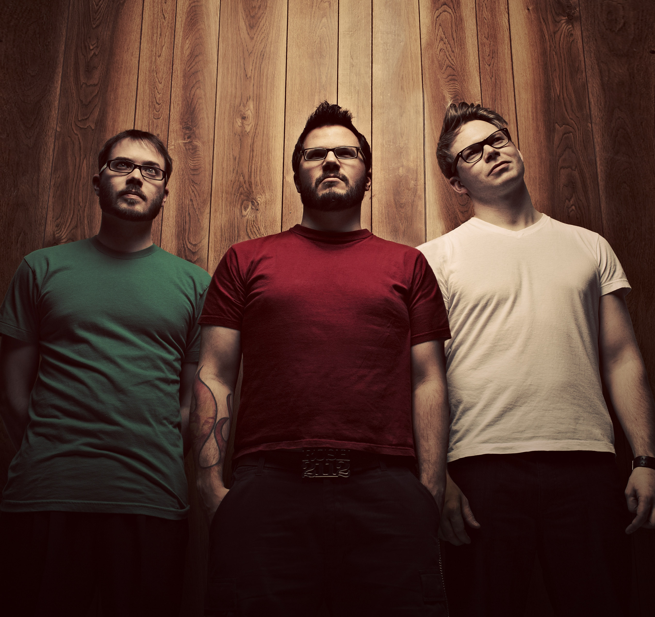 The Evidence